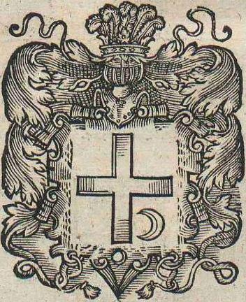 Tarnawa coat of arms by B. Paprocki, published in "Gniazdo cnoty.."